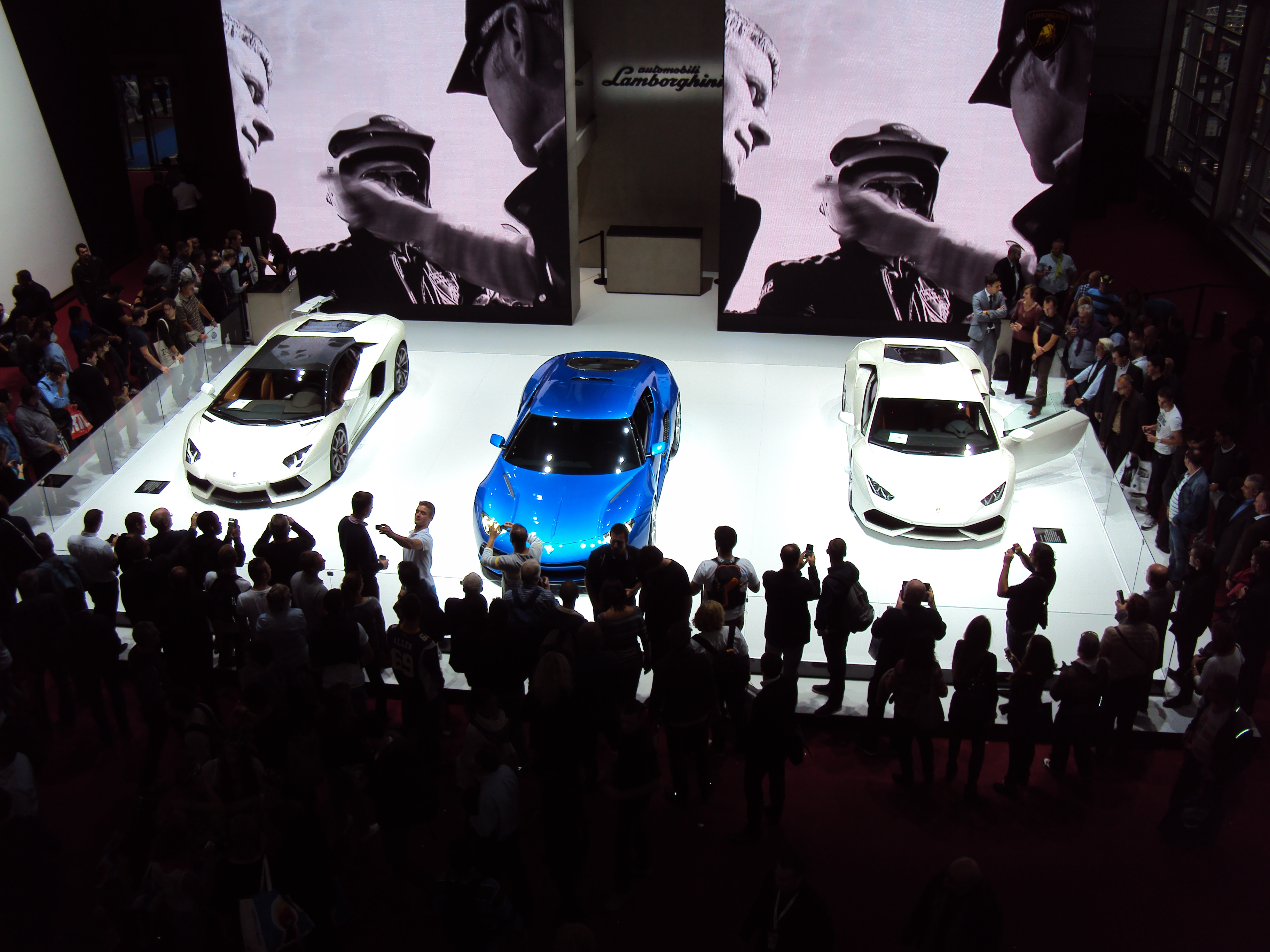 From left to right:Lamborghini Aventador, Lamborghini Asterion and Lamborghini Huracán at the "Mondial de l'Automobile de Paris 2014".